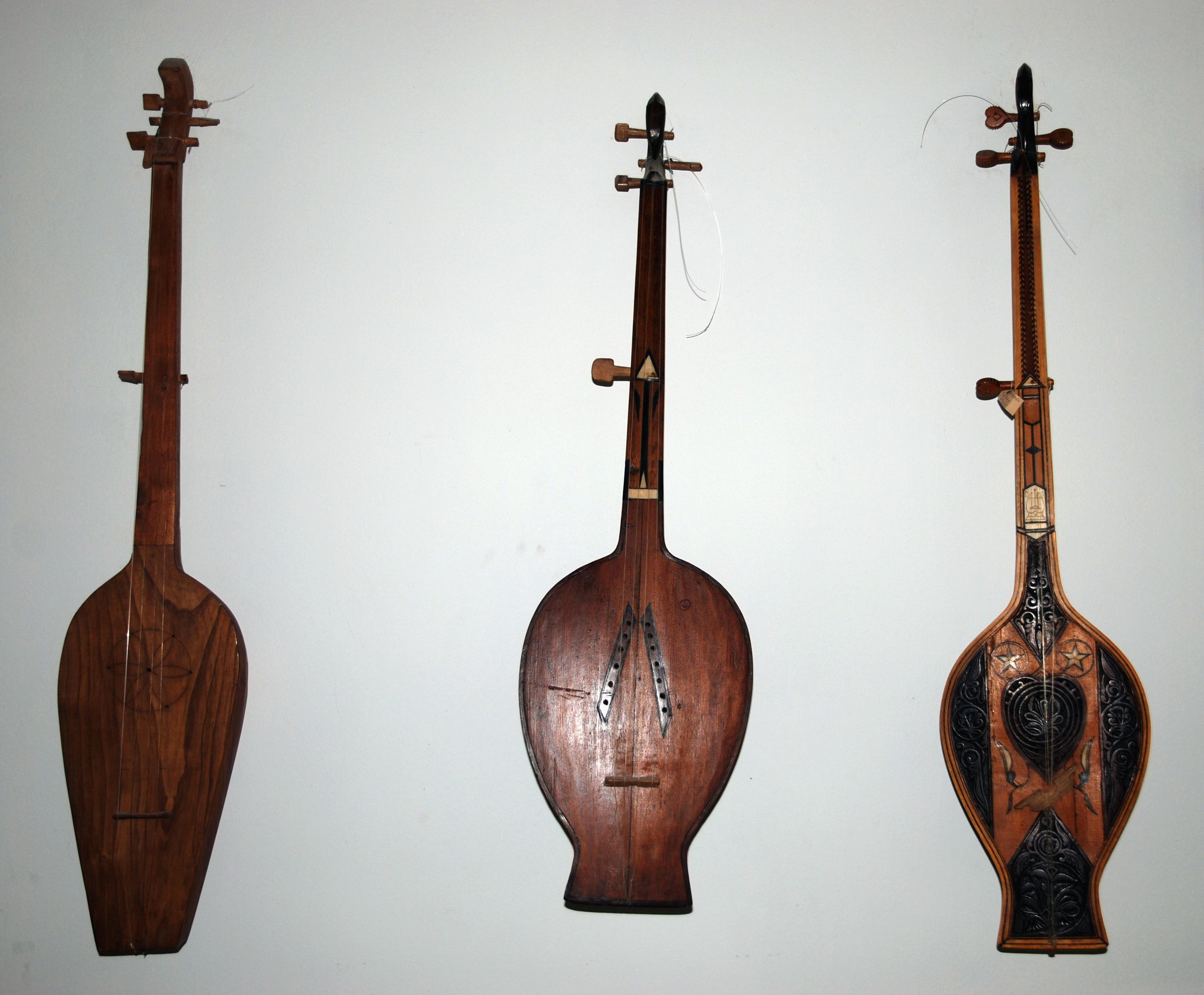 Chonguri, State Museum of Georgian Folk Songs and Musical Instruments, Tbilisi